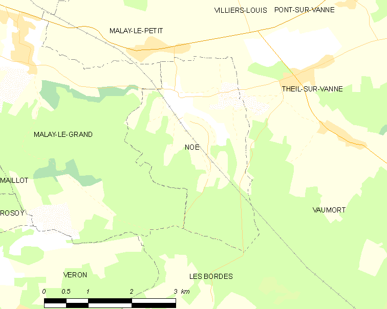 Map of French municipality Noé